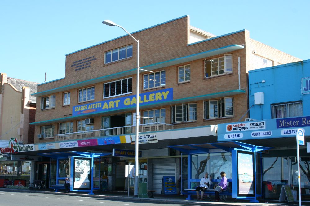 Comino's Arcade (2007) - front elevation (2007)